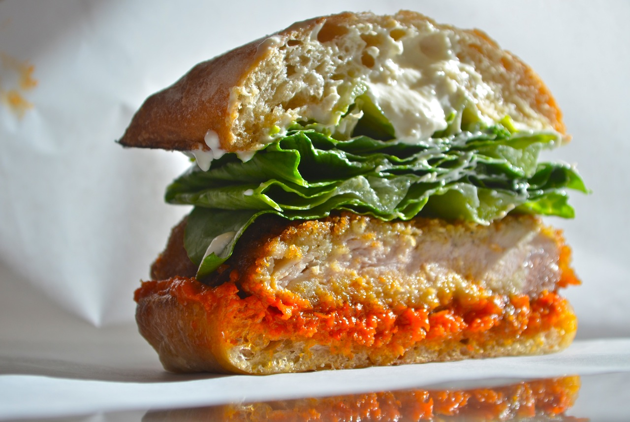 The Original Schnitzelwich